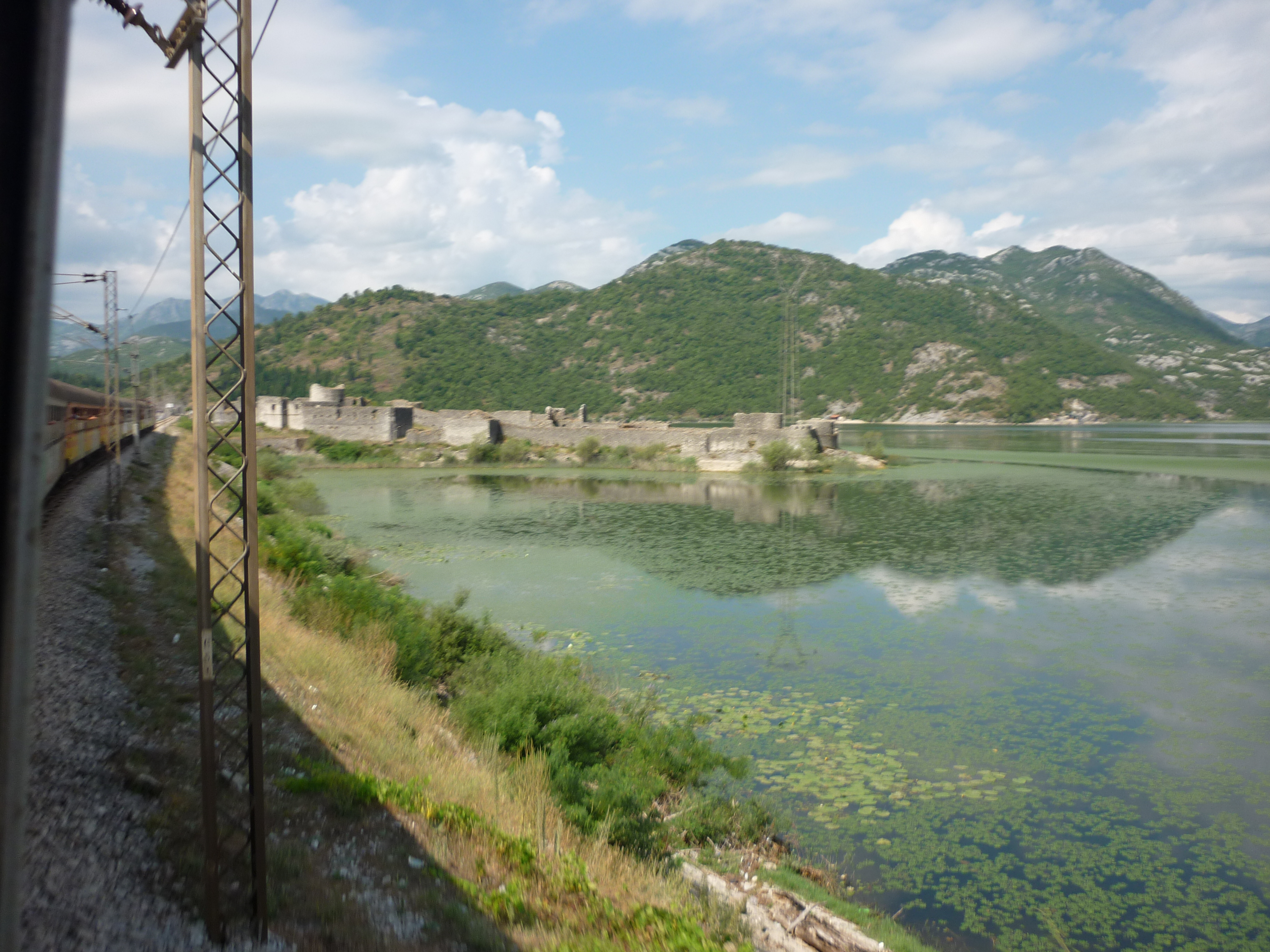 The Belgrad-Bar line crossing the Skutarilake, Montenegro.